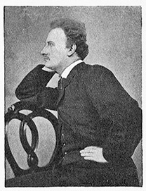 Fritiof Raa (1840-1872)